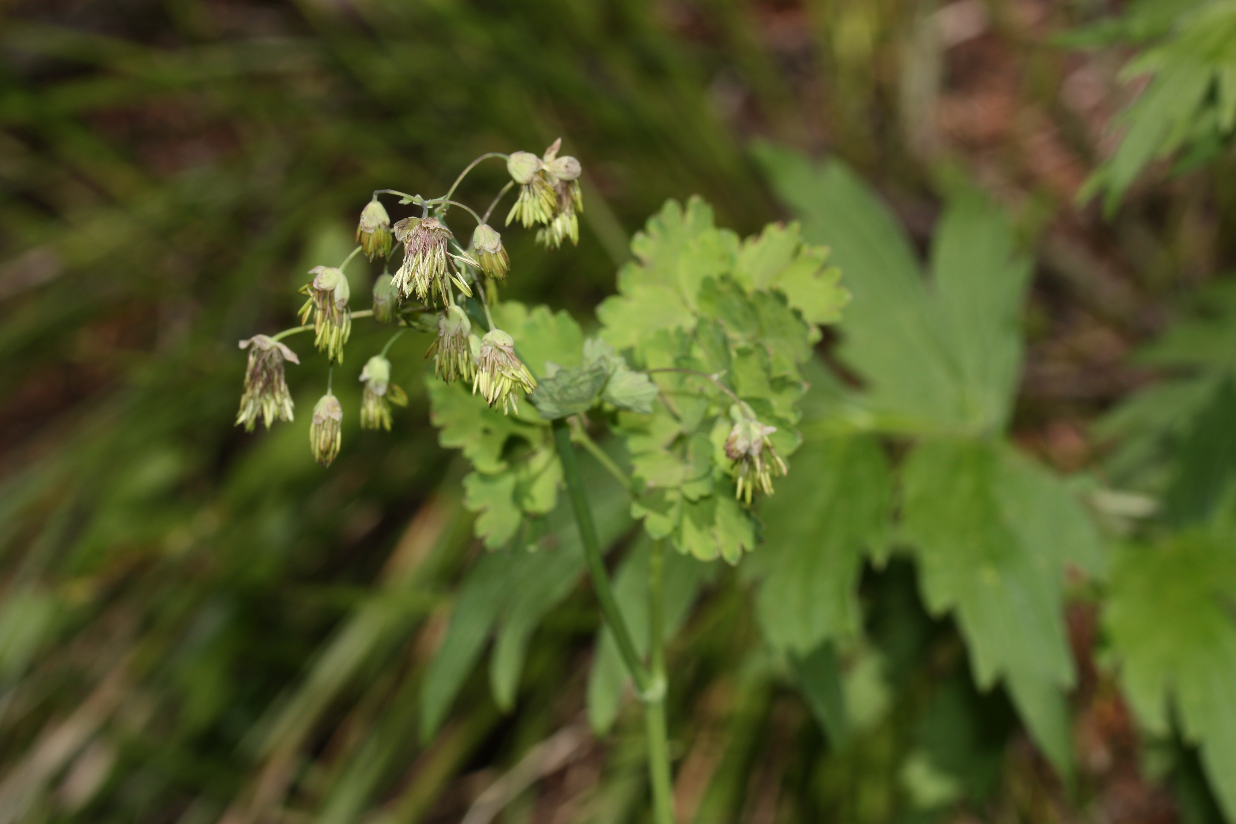 Western Meadow-rue, Male Viewpoint location: Squilchuck_Trail #1200 to Clara Lake (5040 feet), Colockum State Wildlife Area Viewpoint elevation: 1464 meter (4802 ft) Location source: Garmin GPSmap 60CSx Location Datum: WGS84